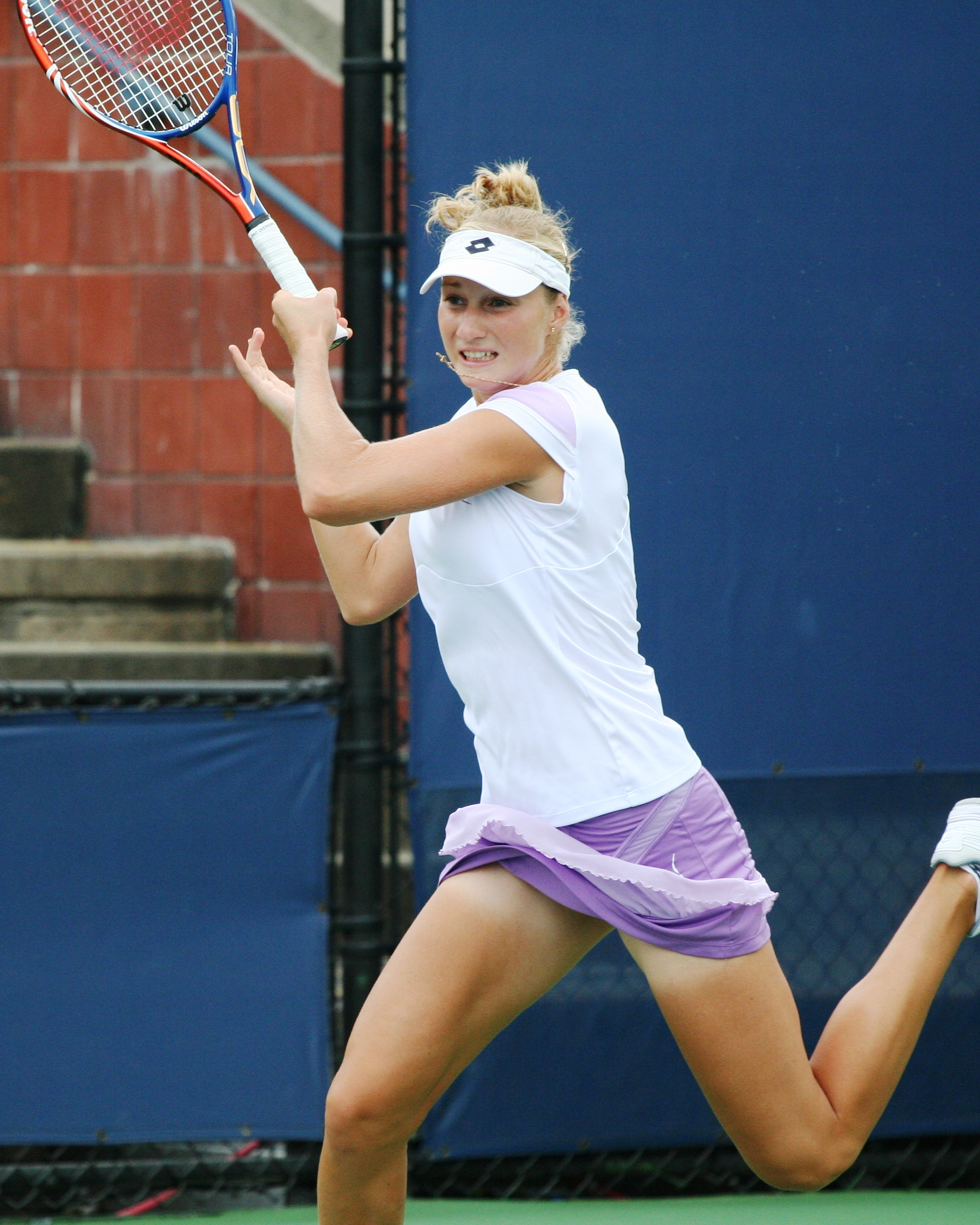 U.S. Open Friday, Sept. 3, 2010